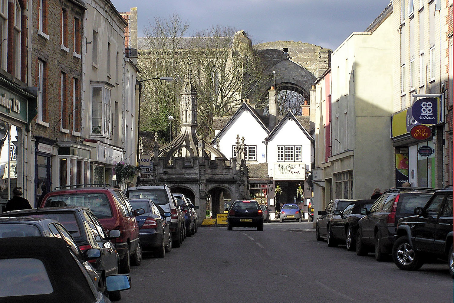 View down the main shopping street of Malmesbury, onto the Market Cross and Abbey.